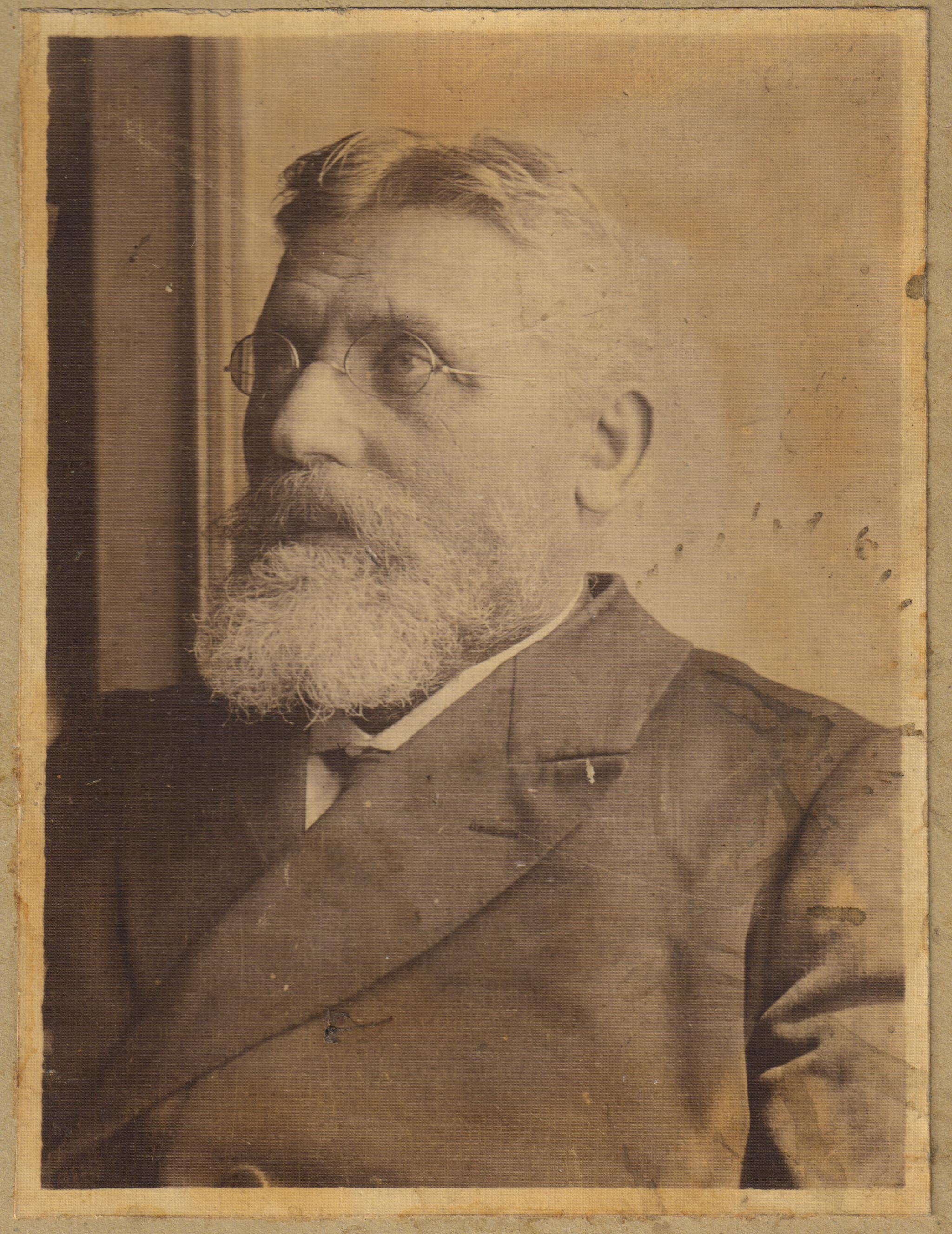 foto